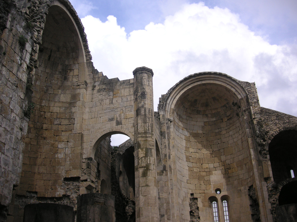 Ruin of Bagrati